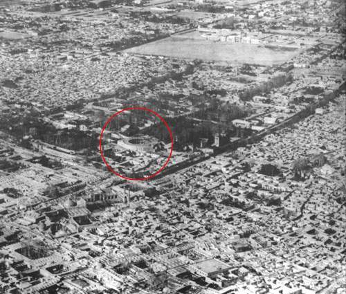 Qajar Era, The Royal Palace (Golestan Palace) and surrounding neighborhood, Tehran, Iran